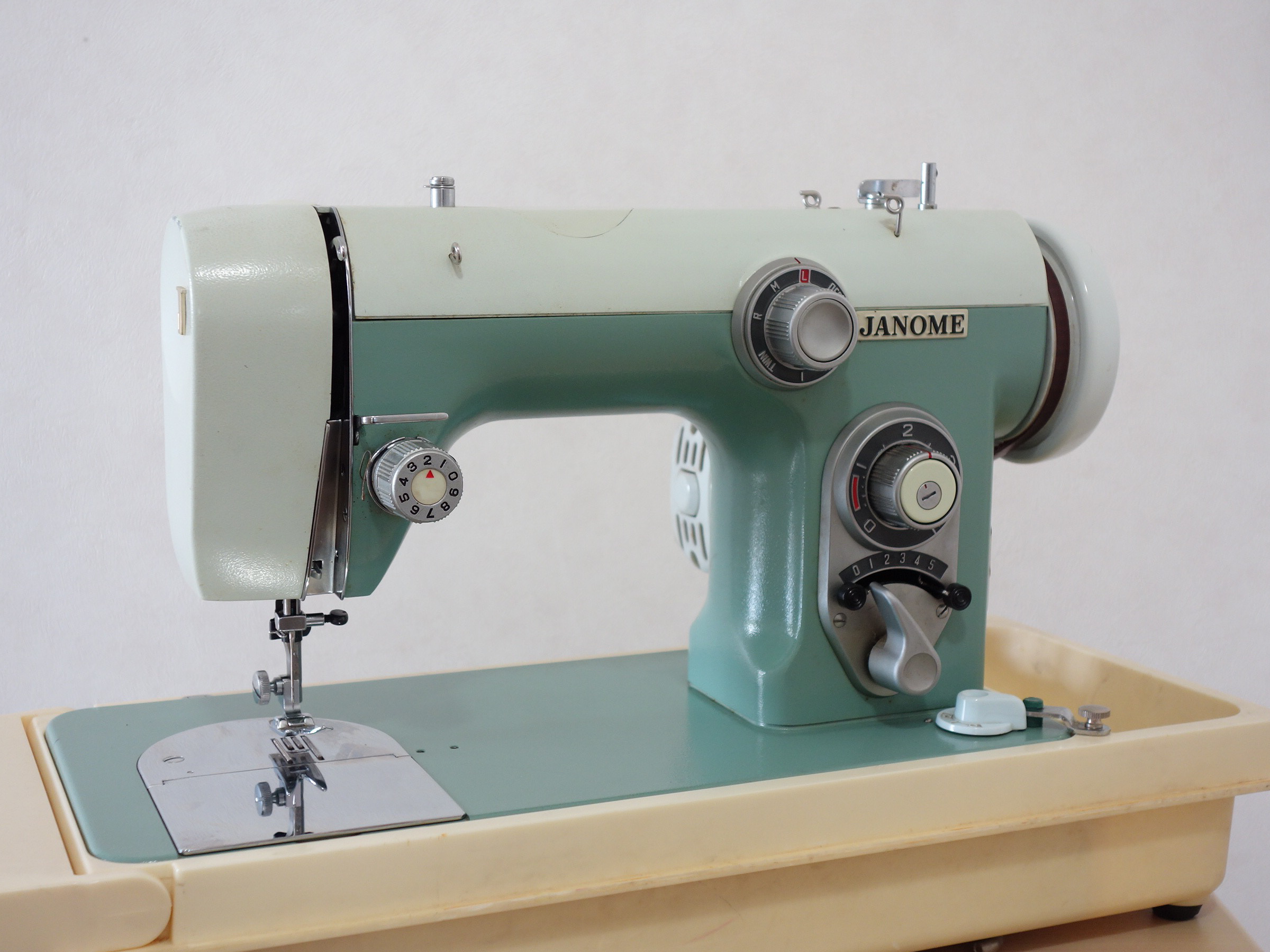 x-default